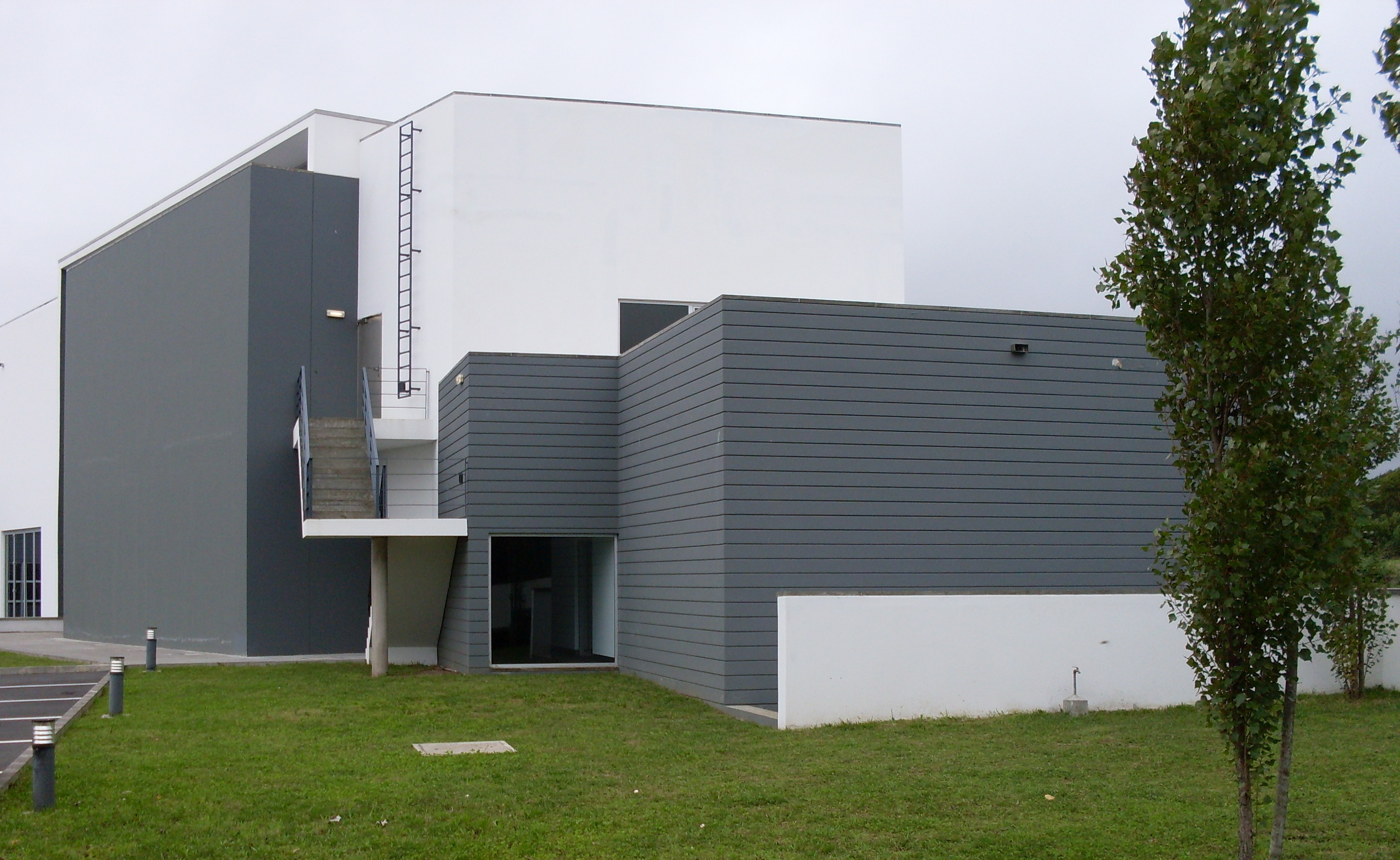 Expolab